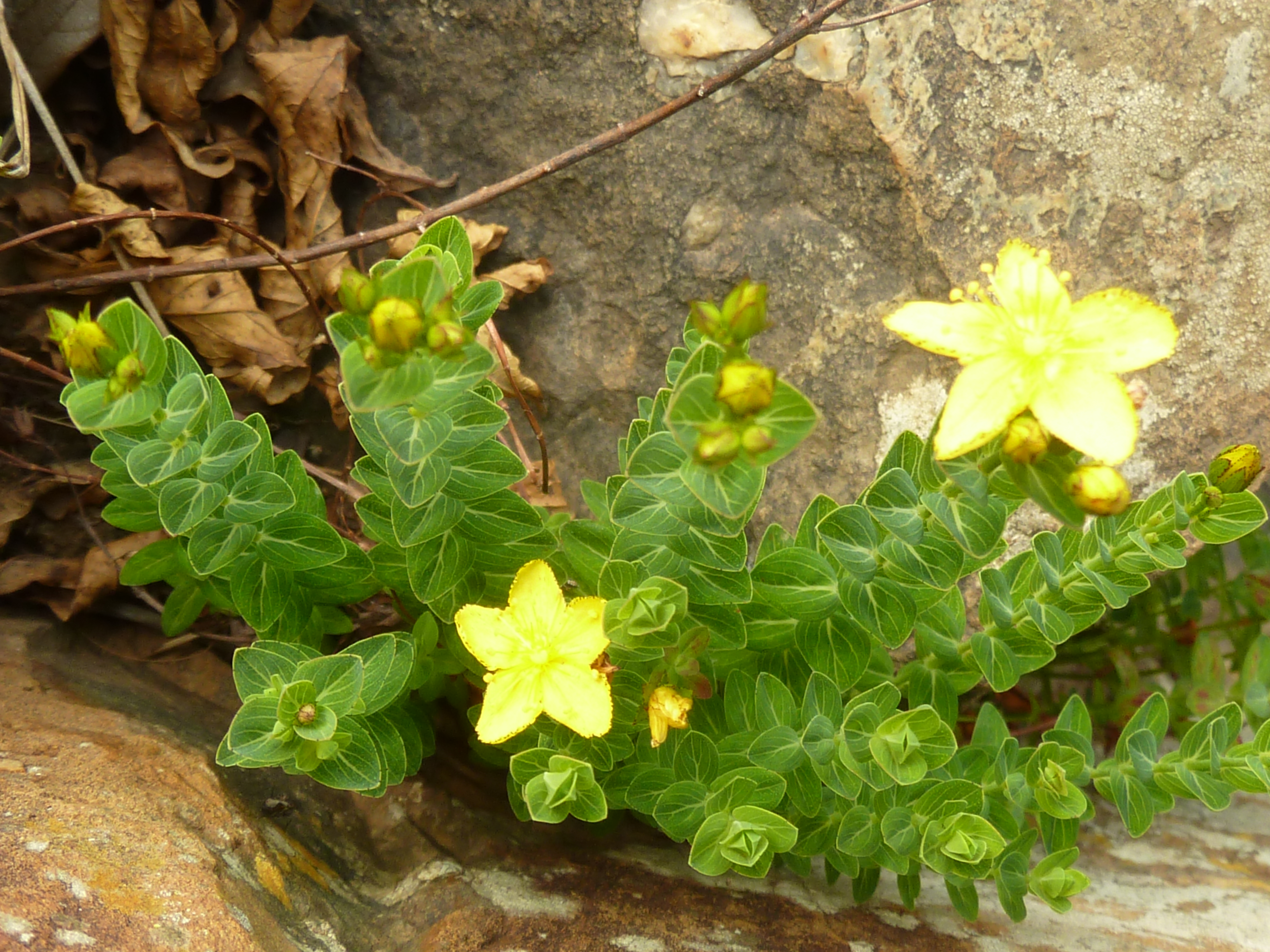 St John's wort growing in a rock crevasse in Faerie Glen Nature Reserve, Pretoria